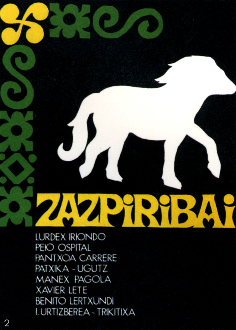 Poster for the Zazpiribai show, Basque Country (1972)